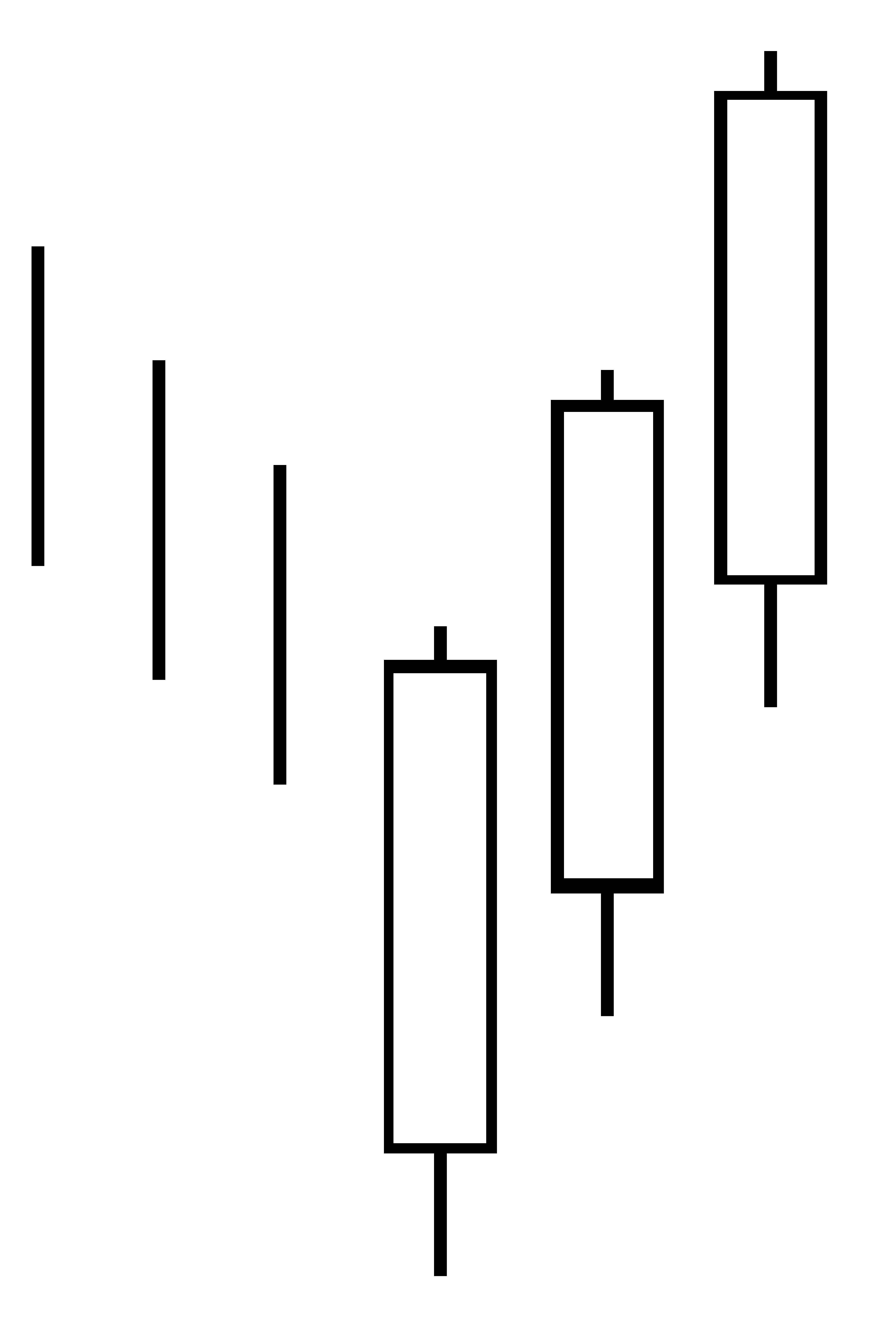 Bullish Three White Soldiers